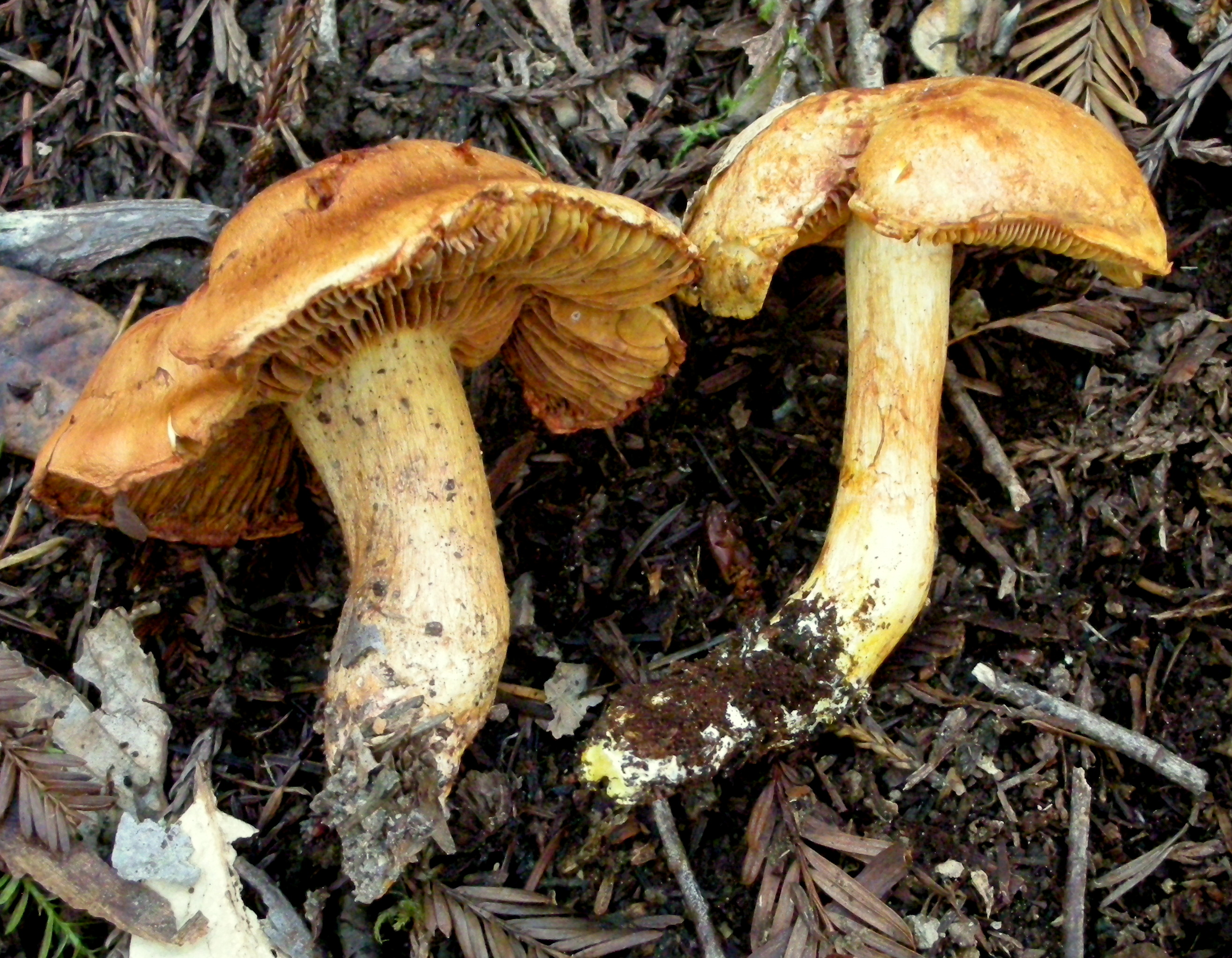 Cortinarius rubicundulus (Rea) A. Pearson Image location: Salt Point State Park, Sonoma Co., California, USA Spores ~ 6.8-8.2 X 4.1-5.0 microns and moderately rough. Caps were a little more darker reddish-orange than seen in the photos. Odor was distinctive, with a raw potato element. Recognized by sight For more information about this, see the observation page at Mushroom Observer.